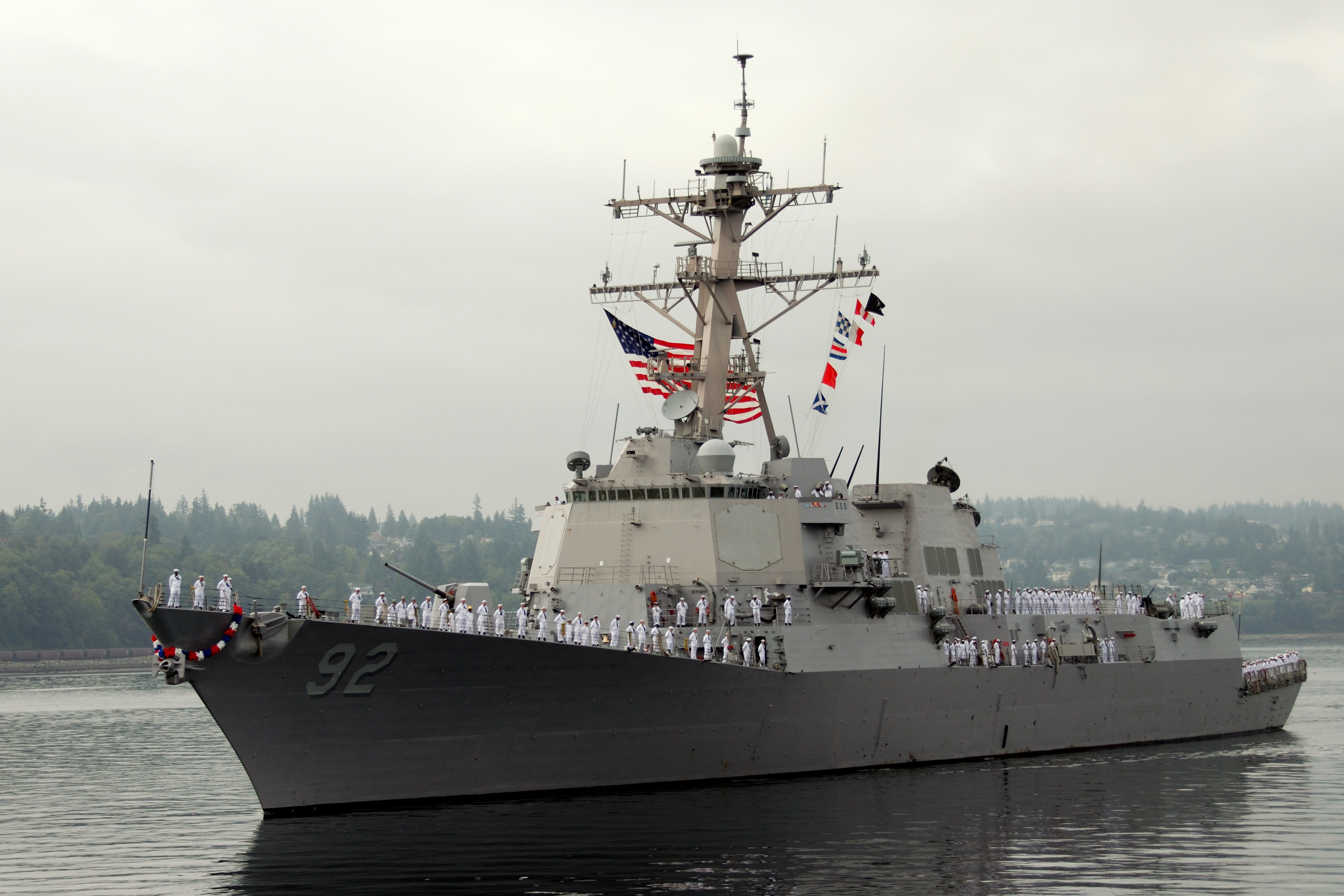 Everett, Wash. (Sept. 22, 2006) - Sailors assigned to the guided missile destroyer USS Momsen (DDG 92) man the rails while pulling into their homeport at Naval Station Everett after a regularly scheduled deployment. Momsen deployed to the Western Pacific in support of U.S. Pacific Command and Commander, Seventh Fleet Joint Task Force operations in support of the global war on terrorism.